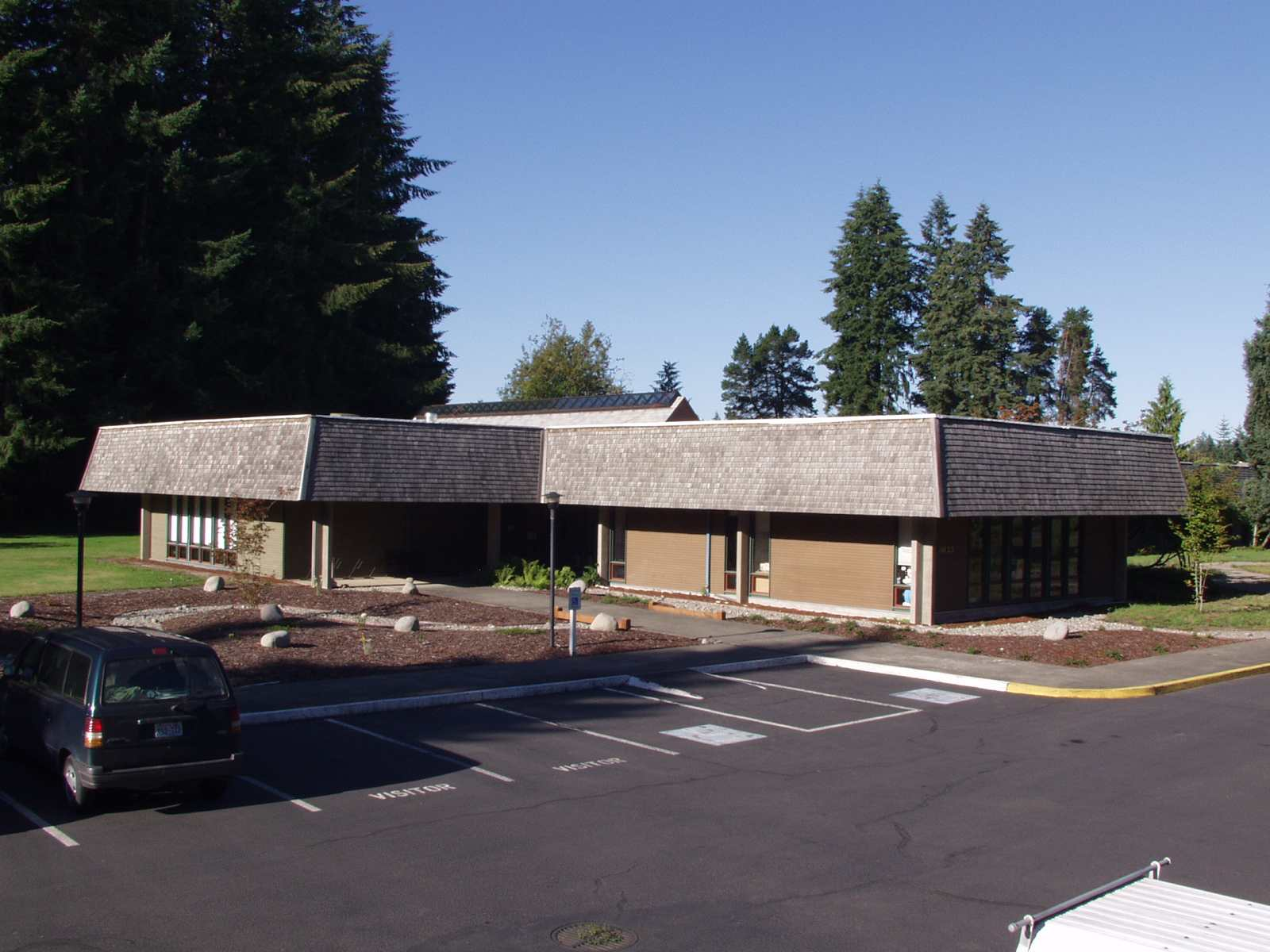 United States Forest Service, Pacific Northwest Research Station, Olympia lab